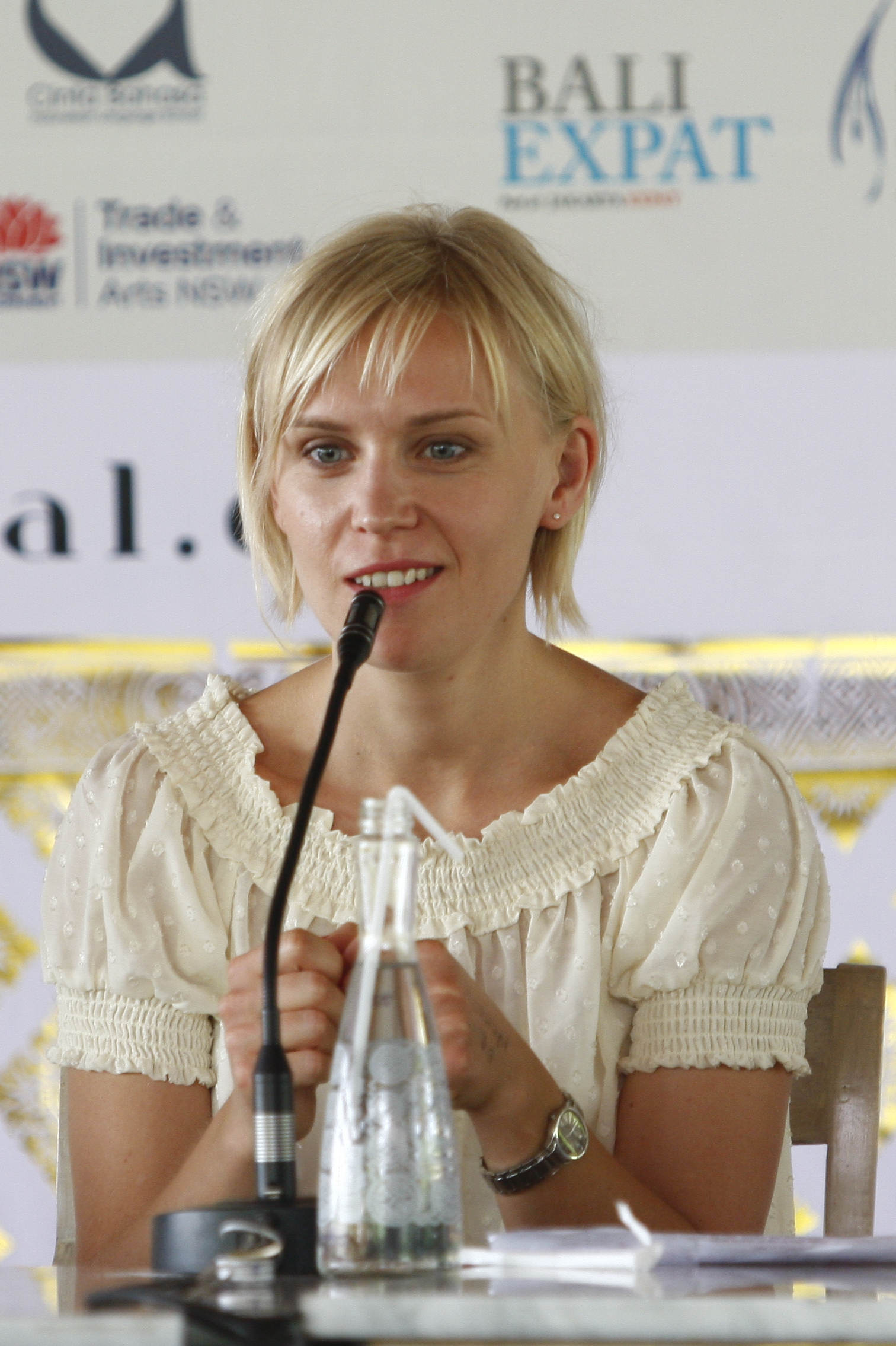 Ubud Writers & Readers Festival 2012. Image credit Stanny Angga.